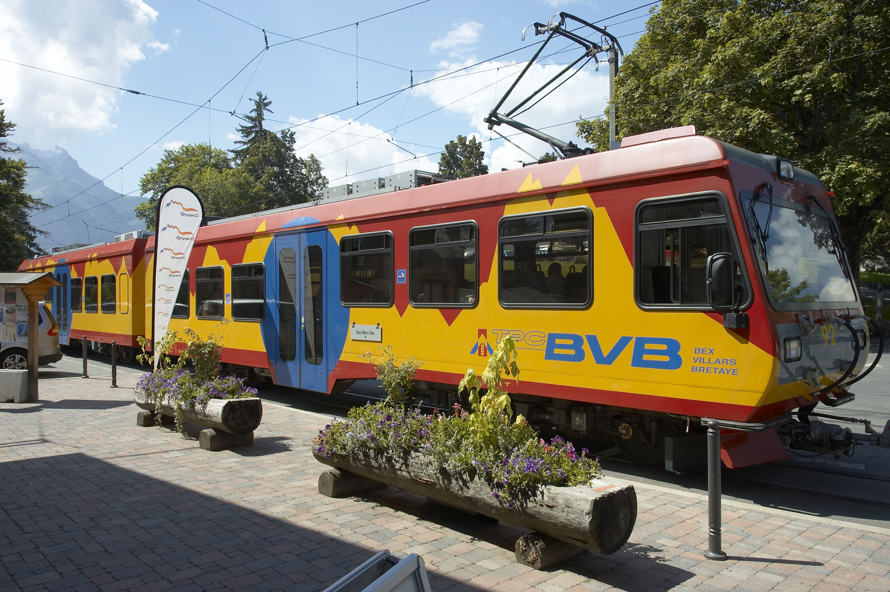 Train at La Barboleuse between Villars-sur-Ollon and Bex. Chemin de fer Bex-Villars-Bretaye (BVB) of the Transports Publics du Chablais (TPC)